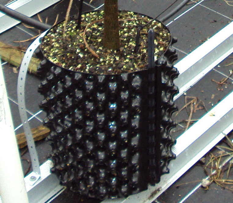 Close up a pot that are easily dismantled and are design to also help prevent root spiraling.